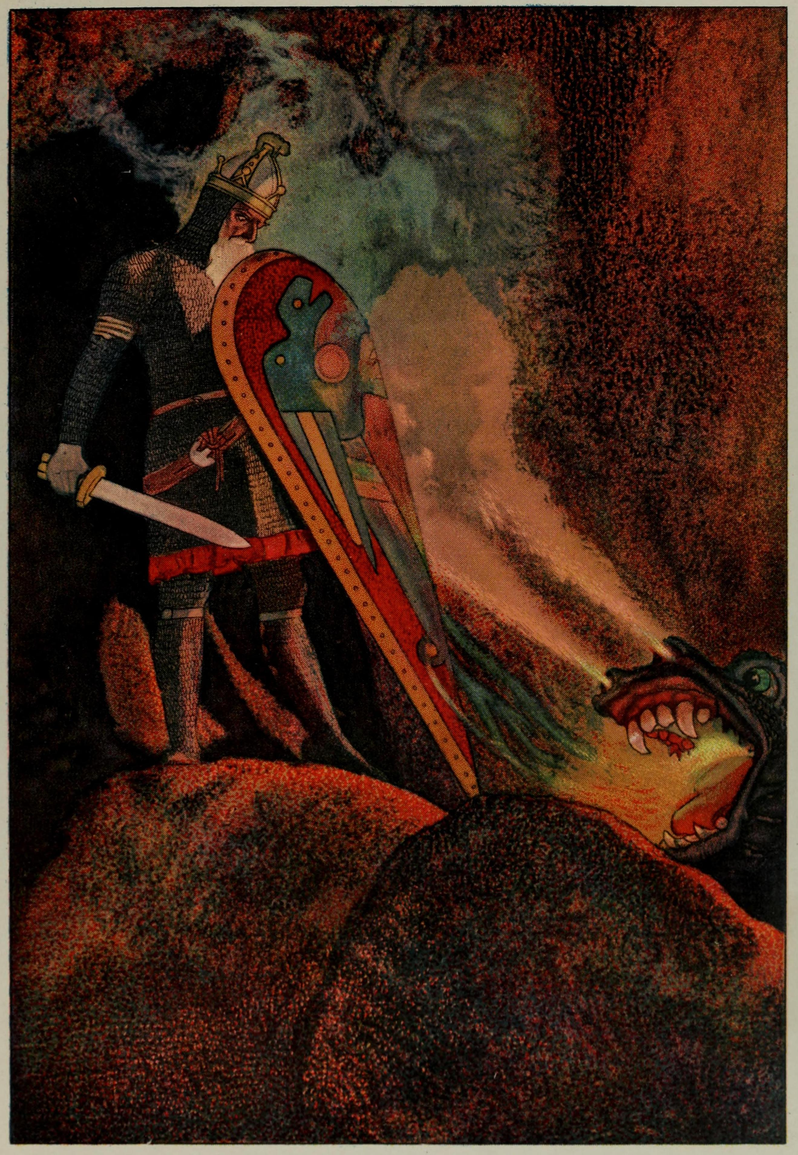 Myths and legends of all nations; famous stories from the Greek, German, English, Spanish, Scandinavian, Danish, French, Russian, Bohemian, Italian and other sources by Marshall, Logan, tr Publication date 1914 Topics Mythology, Legends Publisher Philadelphia, John C. Winston Co Collection internetarchivebooks; china Digitizing sponsor Internet Archive Contributor Internet Archive Language English Boxid IA118705 Camera Canon EOS 5D Mark II Donor alibris Identifier mythslegendsofal00mars Identifier-ark ark:/13960/t9s18zx4d Ocr ABBYY FineReader 8.0 Openlibrary_edition OL6571324M Openlibrary_work OL5080440W Page-progression lr Pages 324 Ppi 500 Scandate 20111017032623 Scanner Scanningcenter shenzhen Full catalog record MARCXML